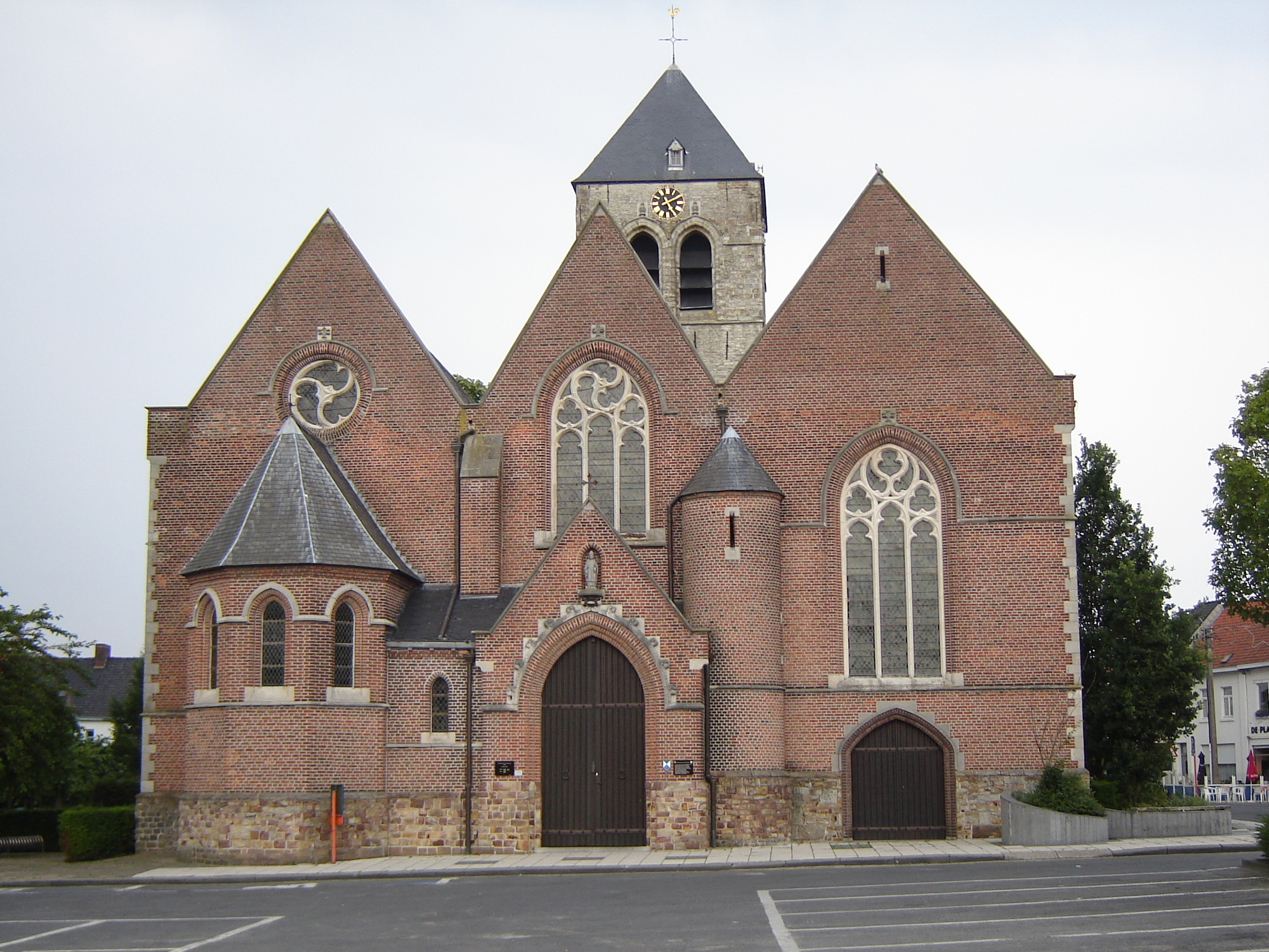 Church of Saint Martin and Saint Christopher in Moorsele. Moorsele, Wevelgem, West-Flanders, Belgium